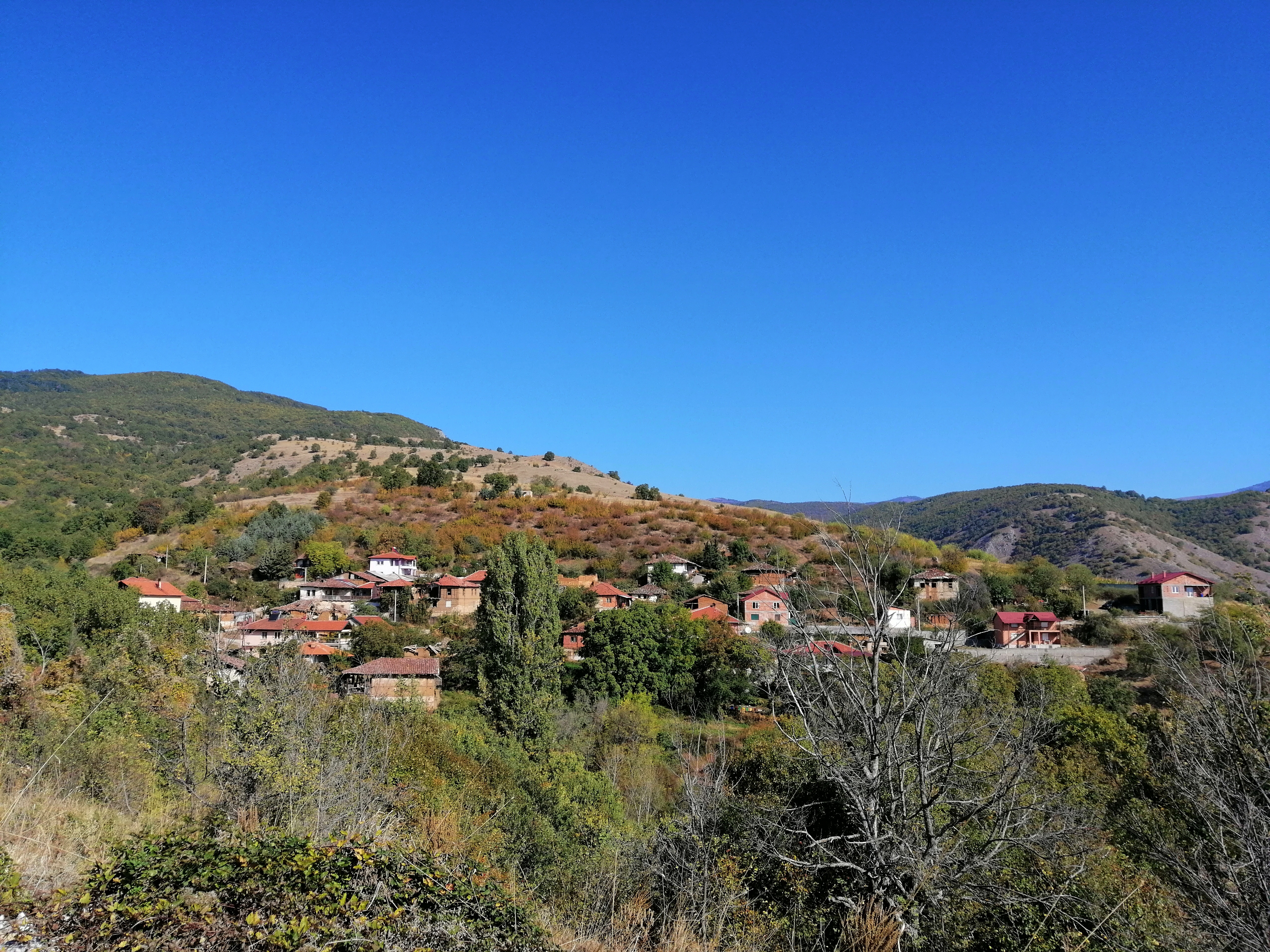 View of the village Gornjani